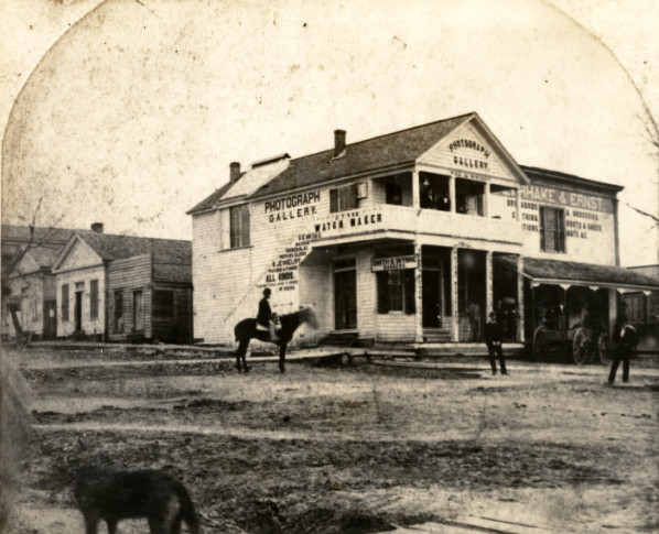 Printed photograph of Huntsville, Texas showing the corner of Twelfth street and University Avenue. The corner building that houses several businesses is centered in the photograph. Poe and Wright's Photograph Gallery is located upstairs, with a skylight. Smith and Wynne, Huntsville's first bankers, are located downstairs. A horse-drawn wagon is stopped in front of the dry goods store next door. Unidentified men are standing in front, another man is seated on a horse, and a dog is standing in the foreground.